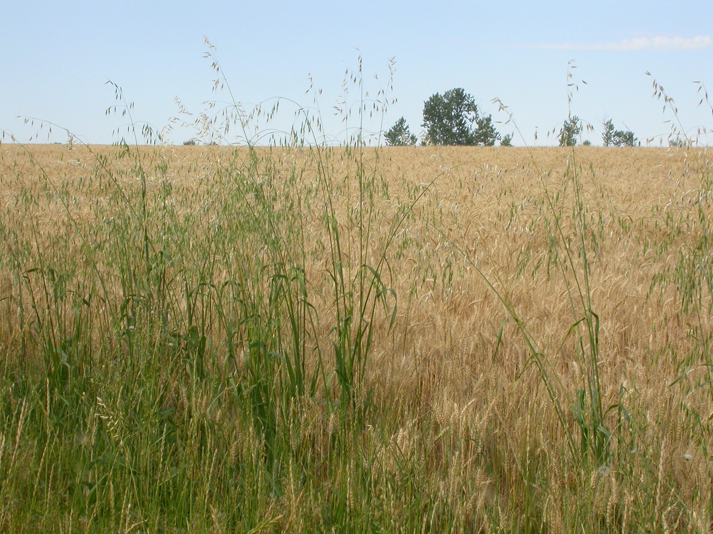 Avena fatua thriving along the edge of a wheat field.